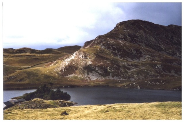 Llynnau Cregennen Looking down on the larger of the two Cregennen lakes. The wooded island can be seen from here. Bryn Brith is the mountain in the background.